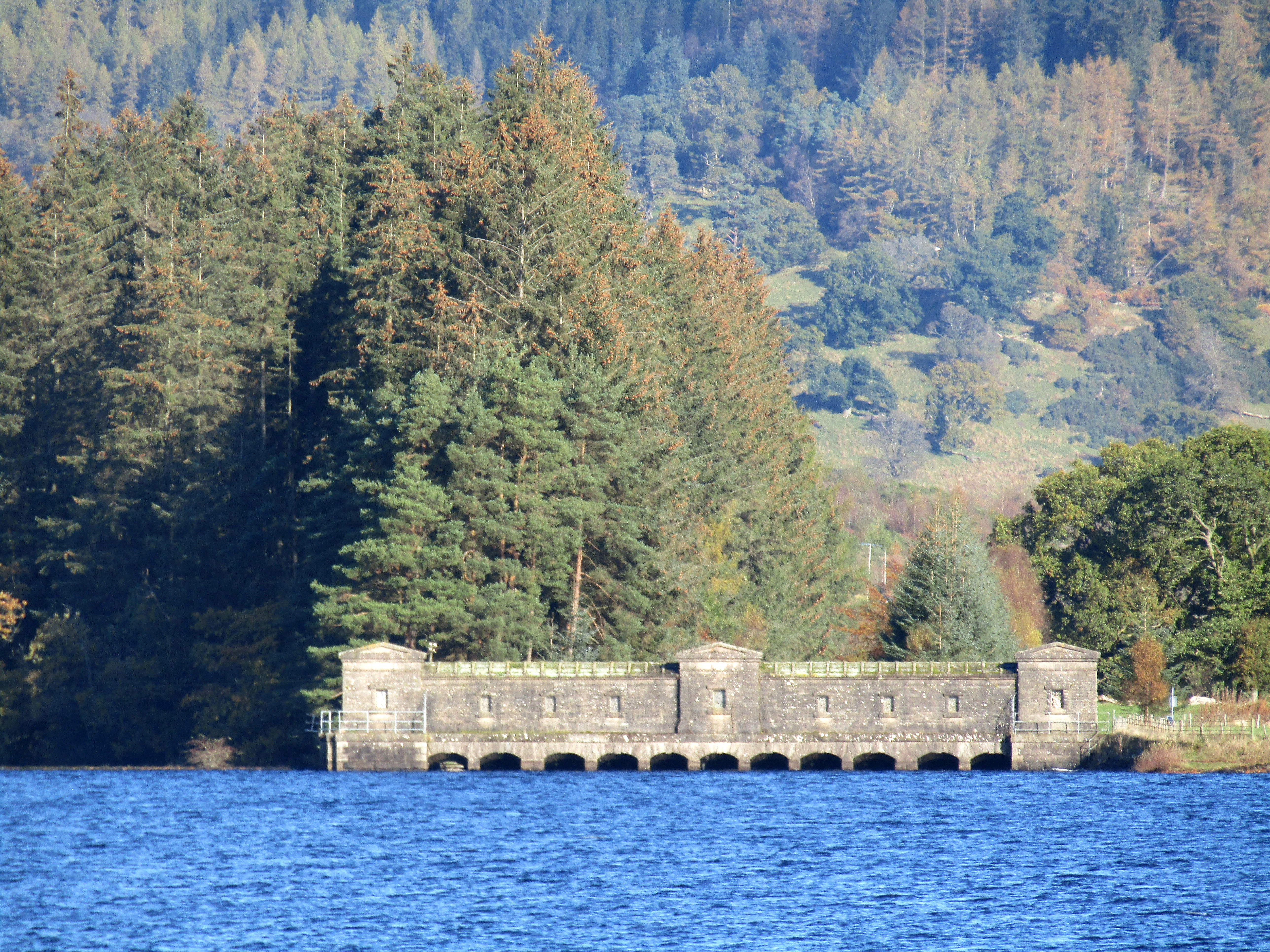 Loch Venachar: the dam (council area of Stirling, Scotland)